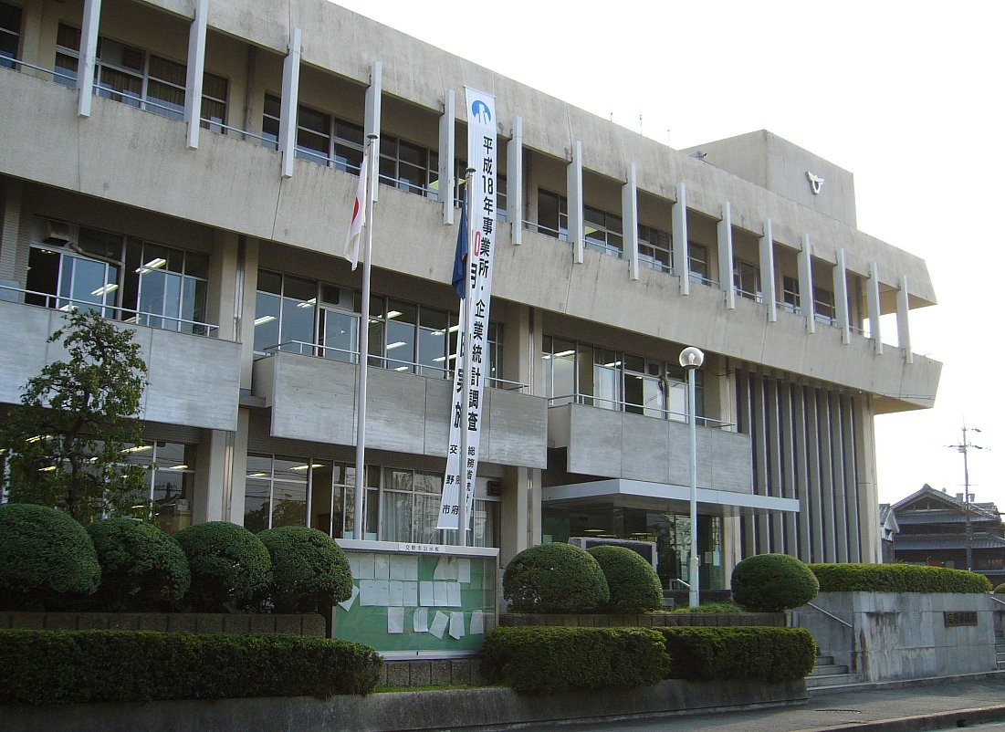 City office of Katano, Osaka, Japan